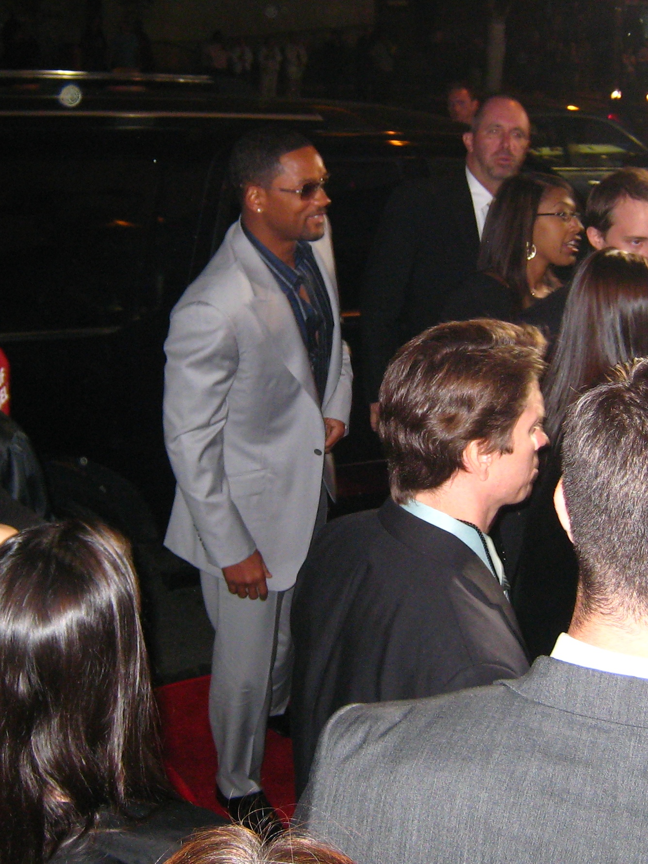 Will Smith in 2007.